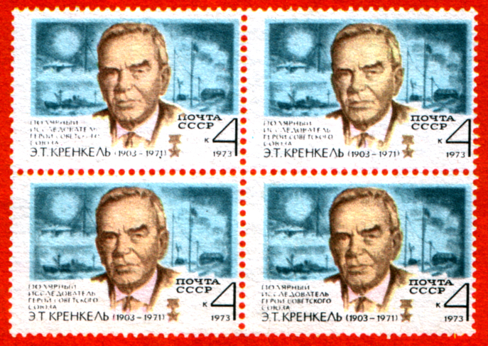 Ernst Theodorowitsch Krenkel, 70th anniversary, stamp of the Soviet Union, 1973, 4 kopecks, postage stamp block